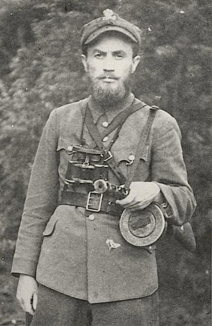 Anatol Radziwonik nom de guerre Olech , 1916-1949 , Polish soldier in rank of second lieutenant, officer in Home Army and after World War II one of the leaders of anticommunist resistance in Lida area ( after WW II in the USSR), the last acting commander of anti-Soviet troops in this area. Fall in action.